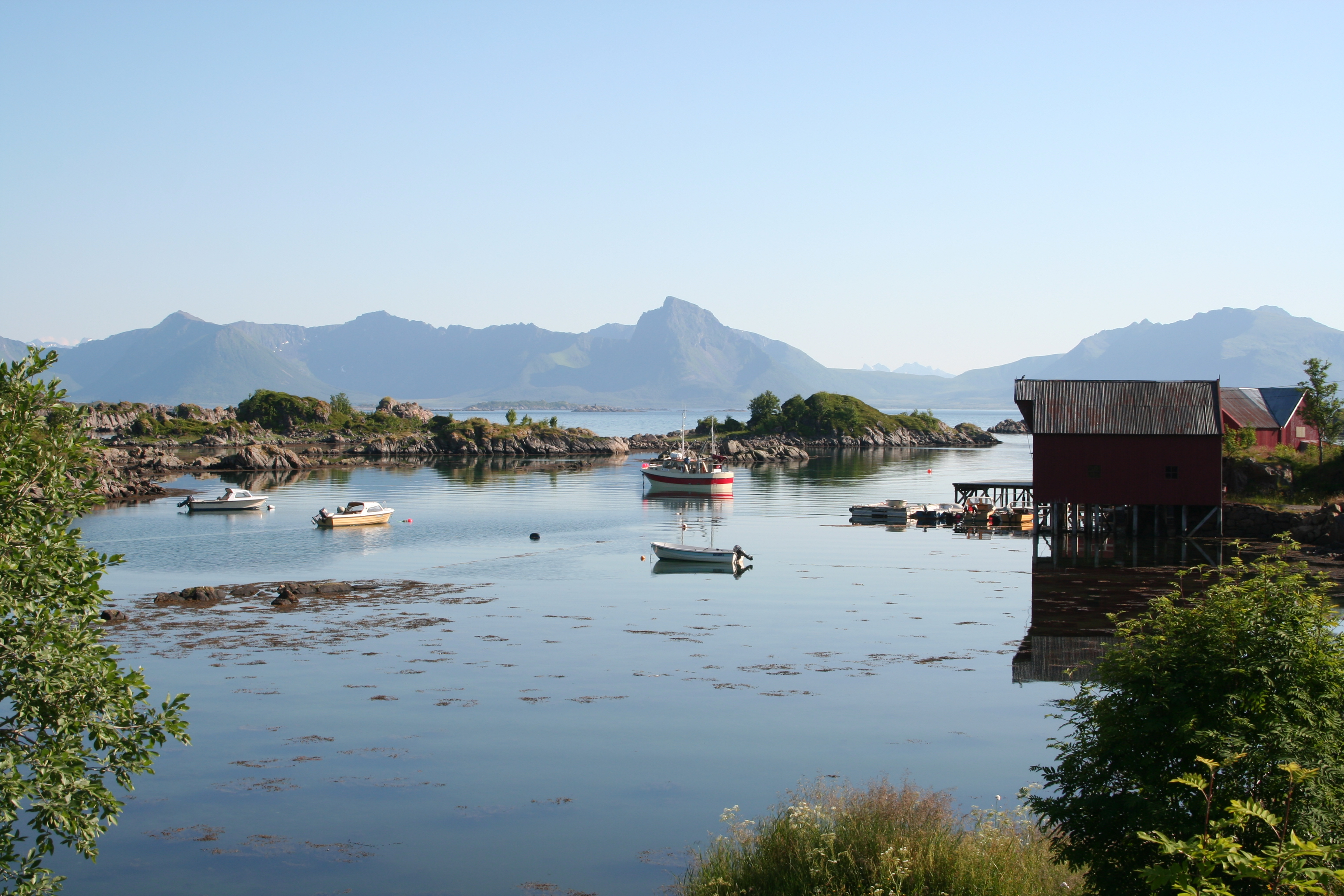 Guvåg in Bø (Nordland), Norway. Hadseløya island in the background.